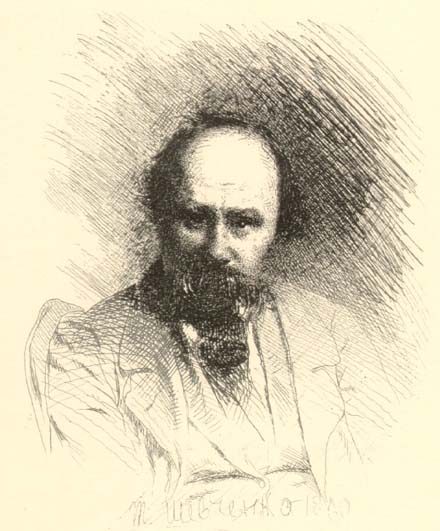 Self-portrait of Taras Shevchenko, 1860